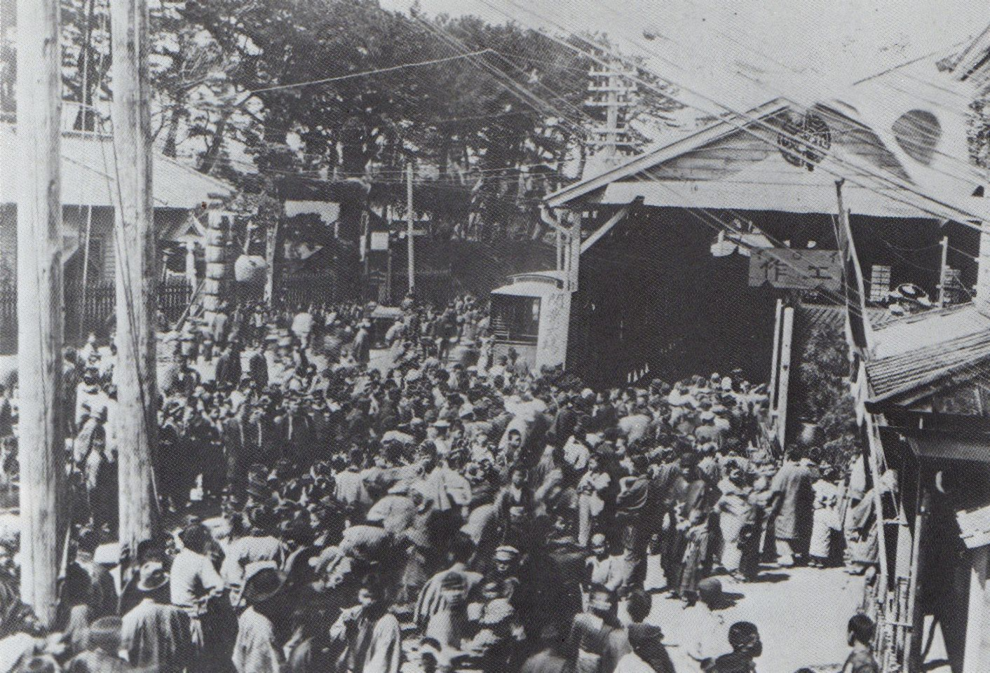 Opening ceremony of Odawara Electric Railways (April 3, 1900)